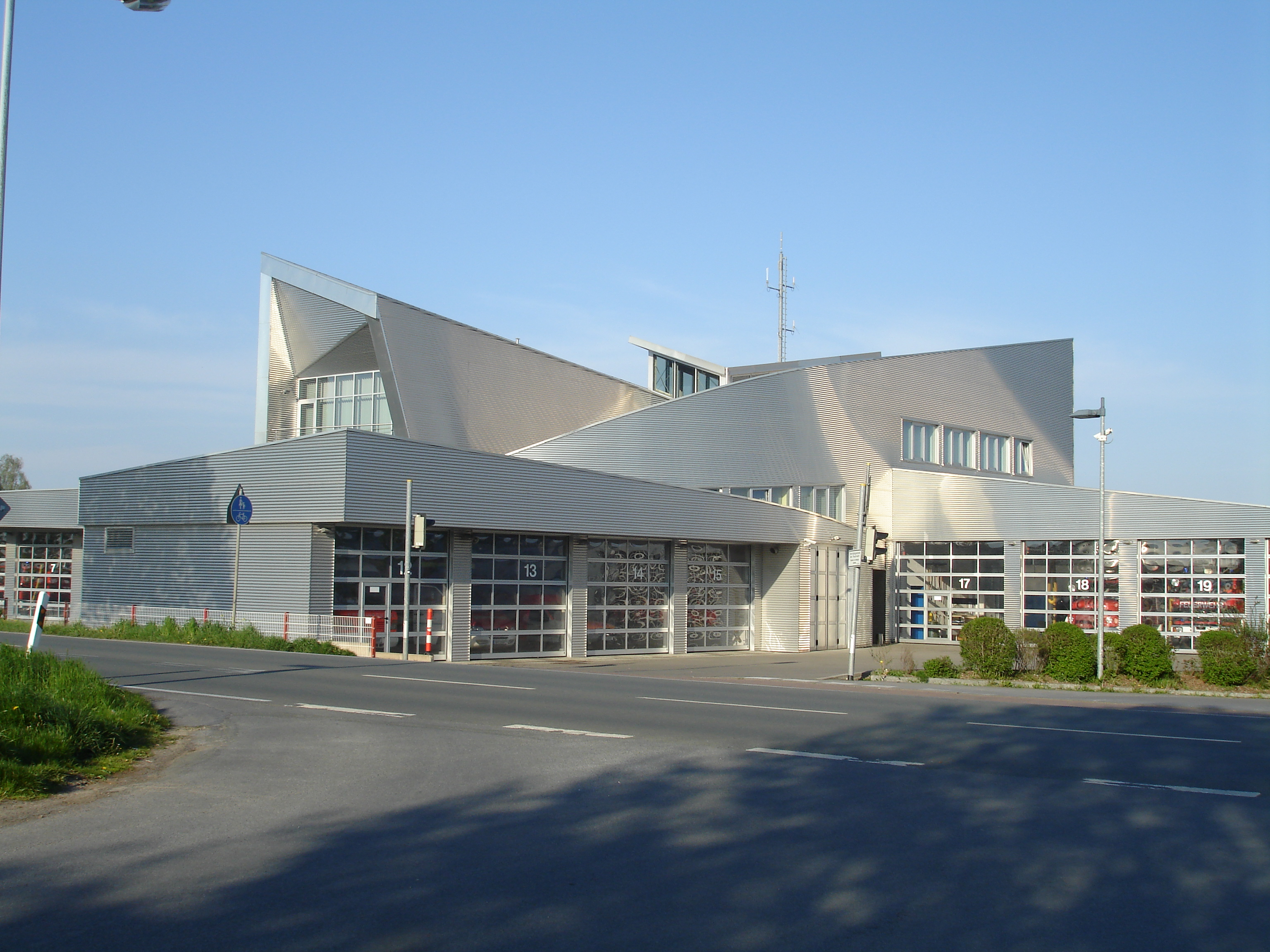 Town of Bünde, District of Herford, North Rhine-Westphalia, Germany: The Firebrigade - Center.